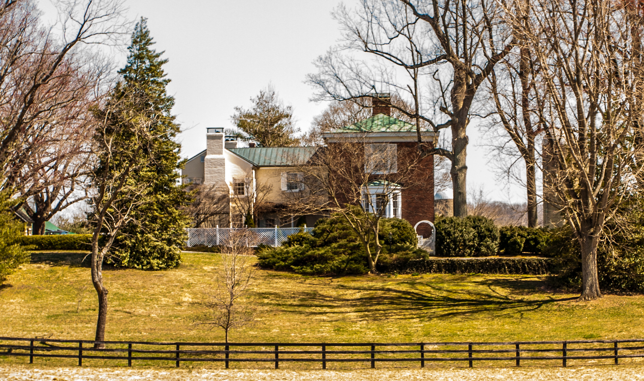 side entrance to Woodside, Delaplane, VA